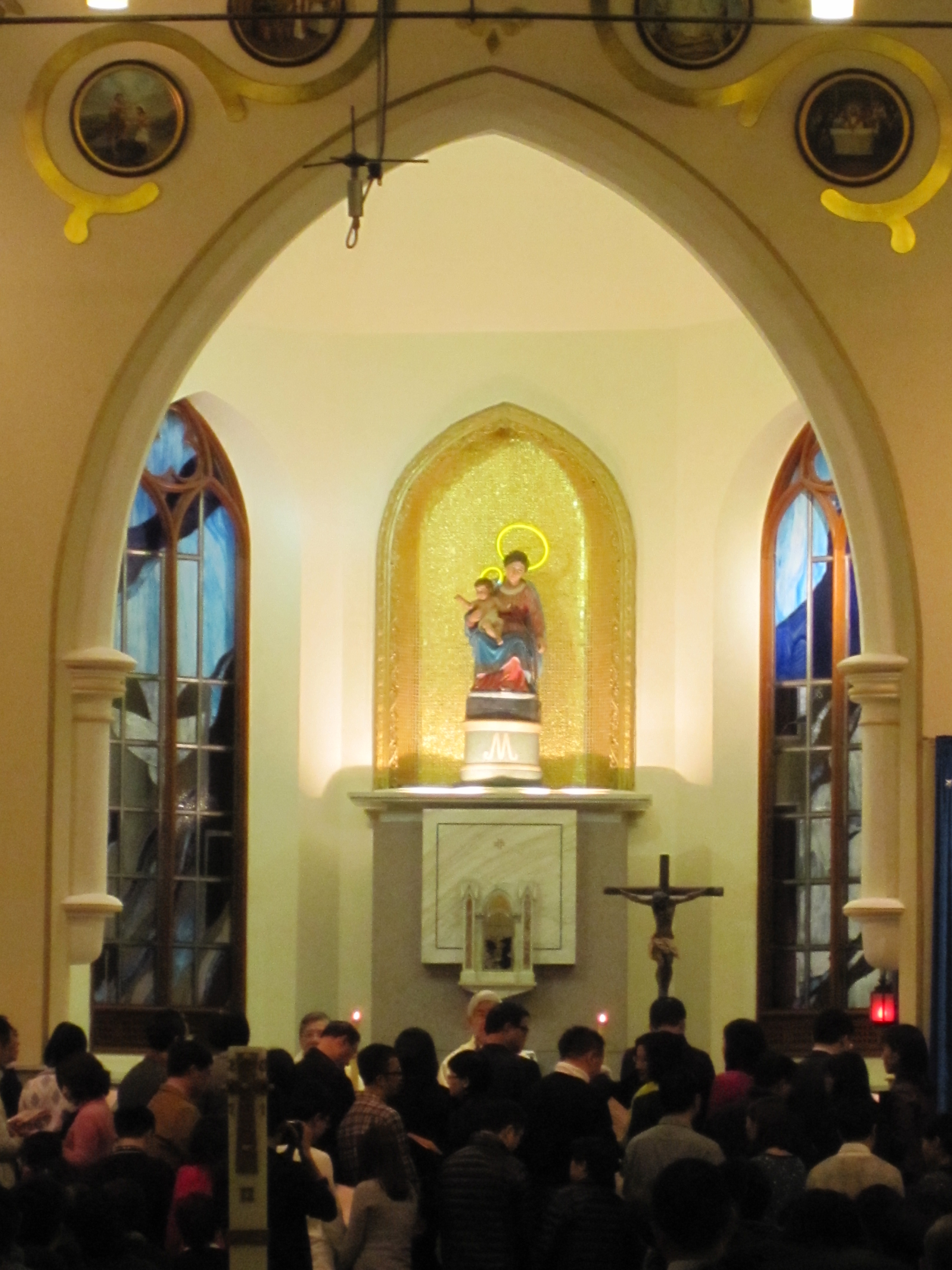 Rosary Church